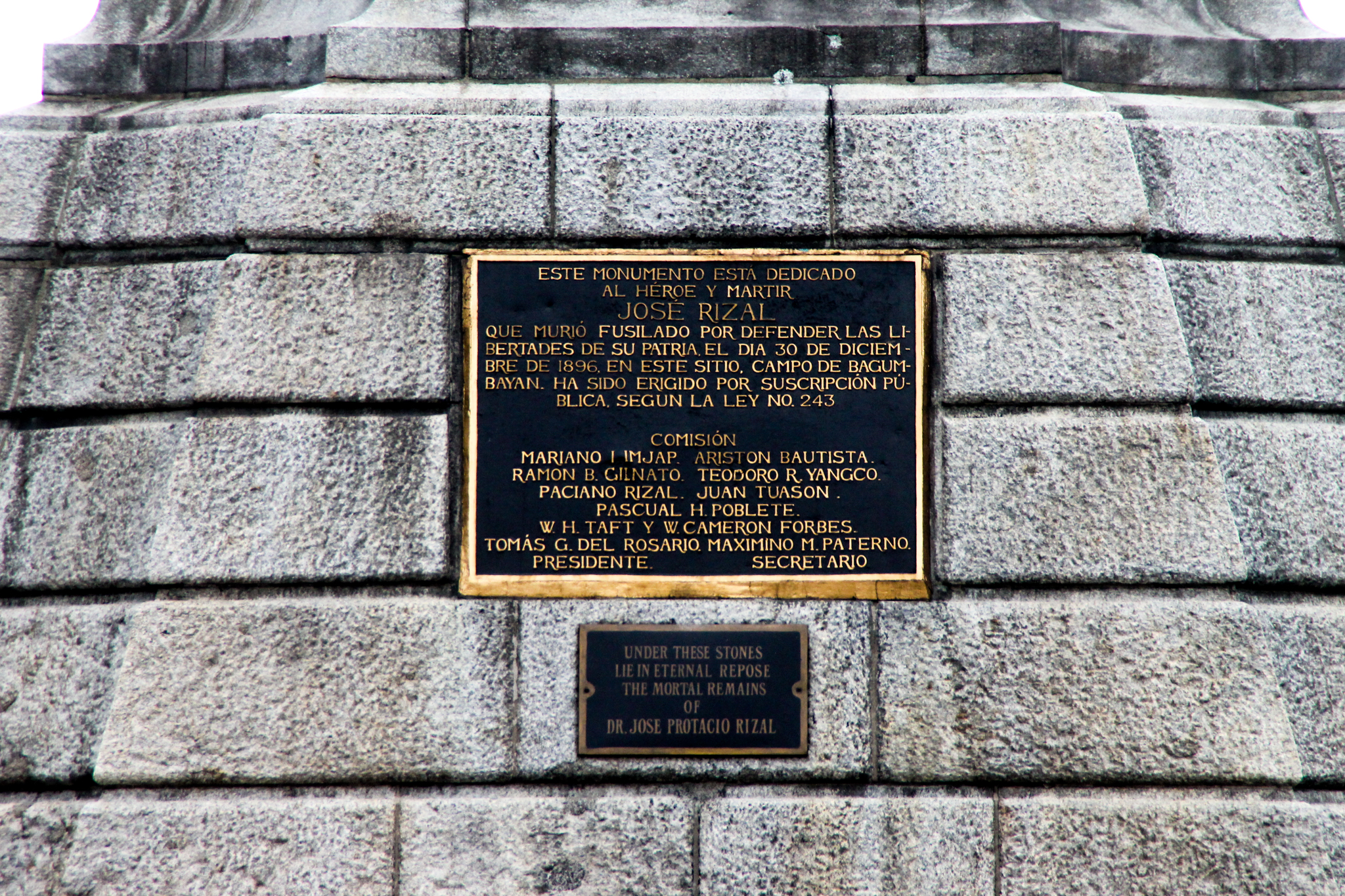 Close-up view of the plaque at the back of the Rizal Monument, Rizal Park, Manila, Philippines. The top plaque contains the dedication of the monument, and the list of members of the commission overseeing the construction of the monument, (which includes Rizal's elder brother Paciano). The bottom plaque indicates that Rizal's remains are buried beneath the monument.